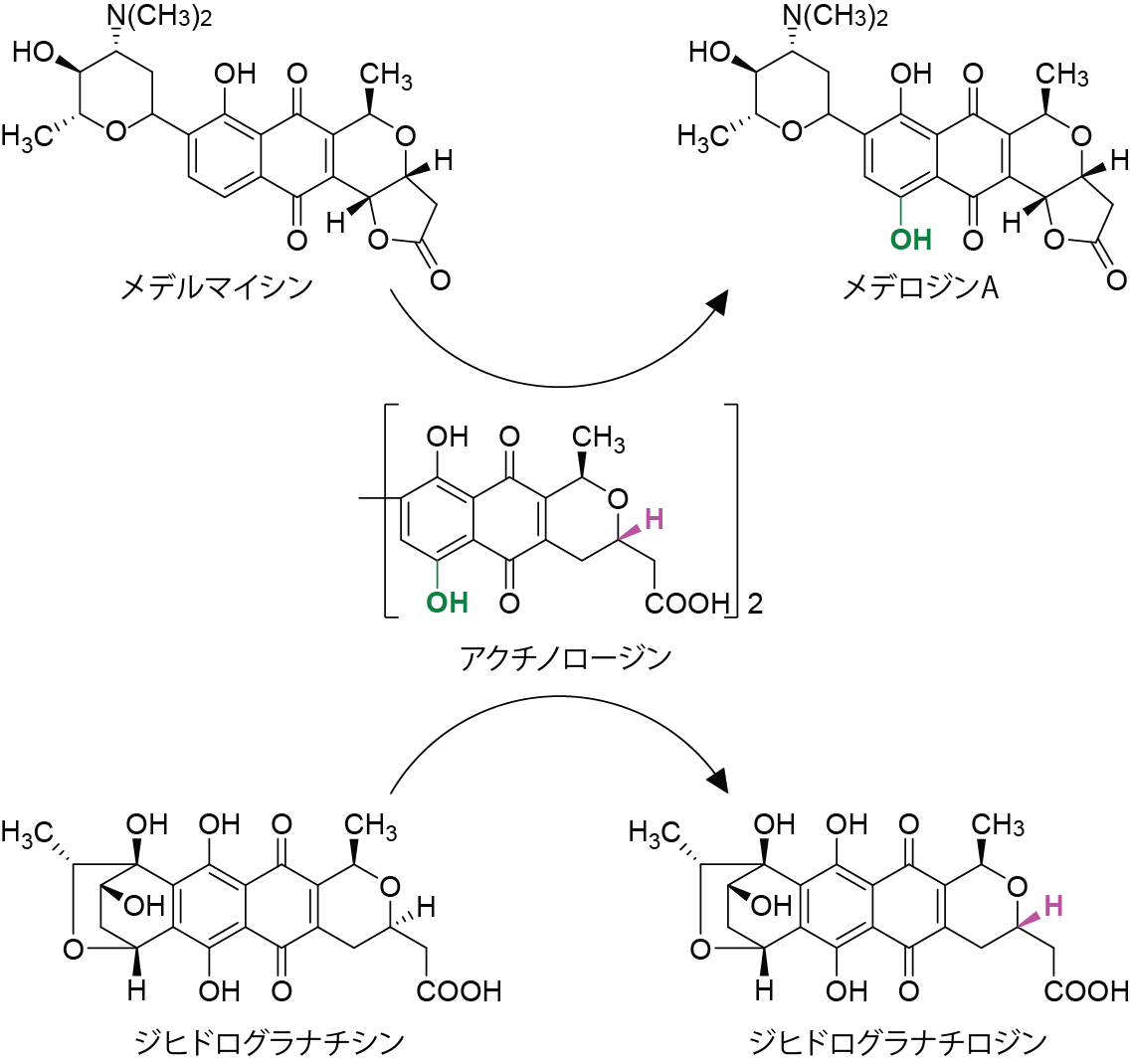 Example 1 of combinatorial biosynthesis